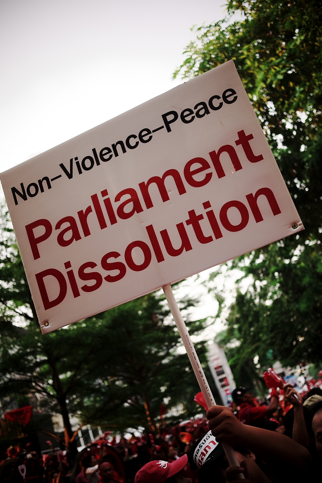 Protest Redshirsts in Bangkok. 3rd April 2010.